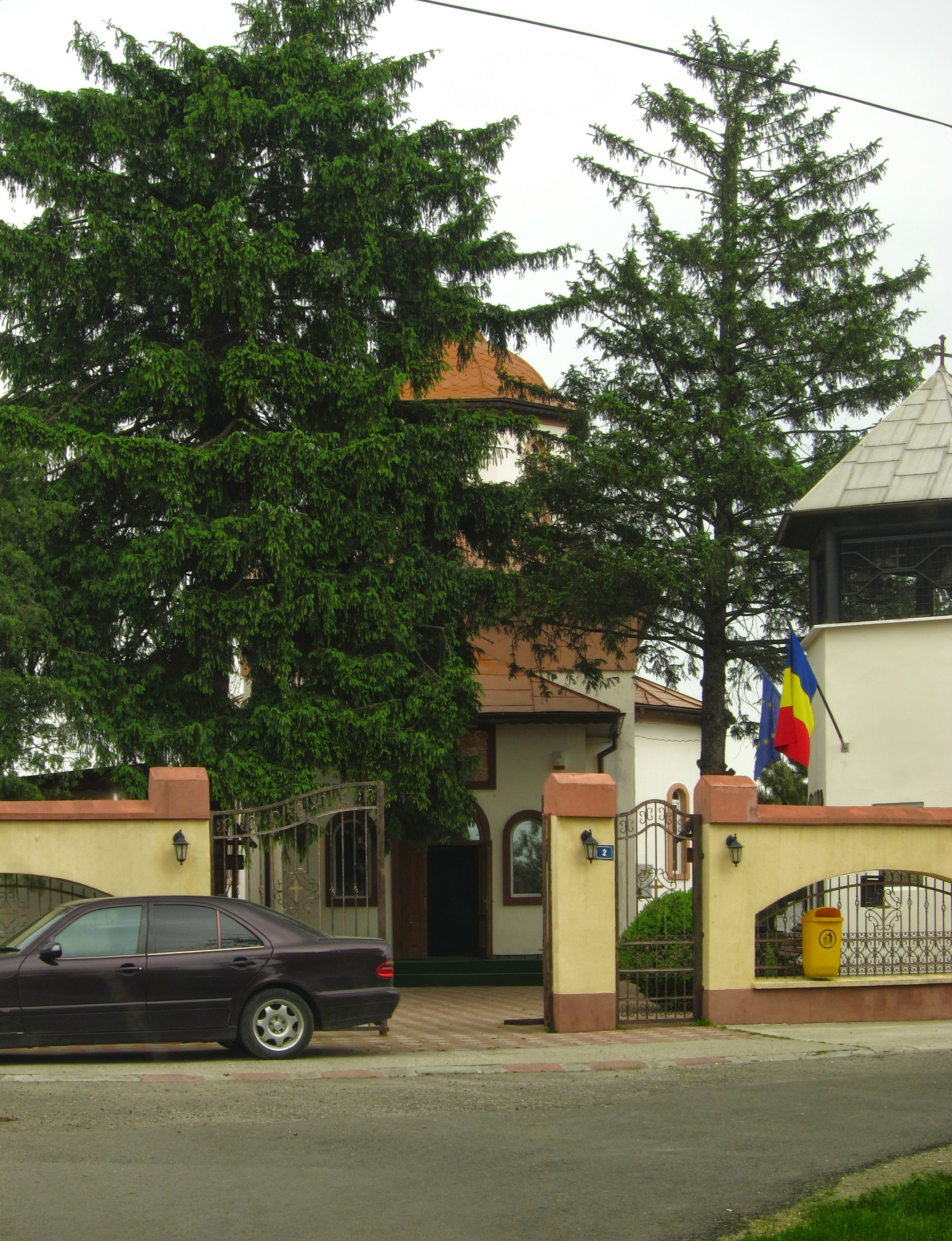 Saint Nicholas' church in Ștefăneștii de Sus, Ștefăneștii de Jos commune, Ilfov County, RomaniaRomână: Biserica „Sfântul Nicolae” din Ștefăneștii de Sus, comuna Ștefăneștii de Jos, județul Ilfov, România